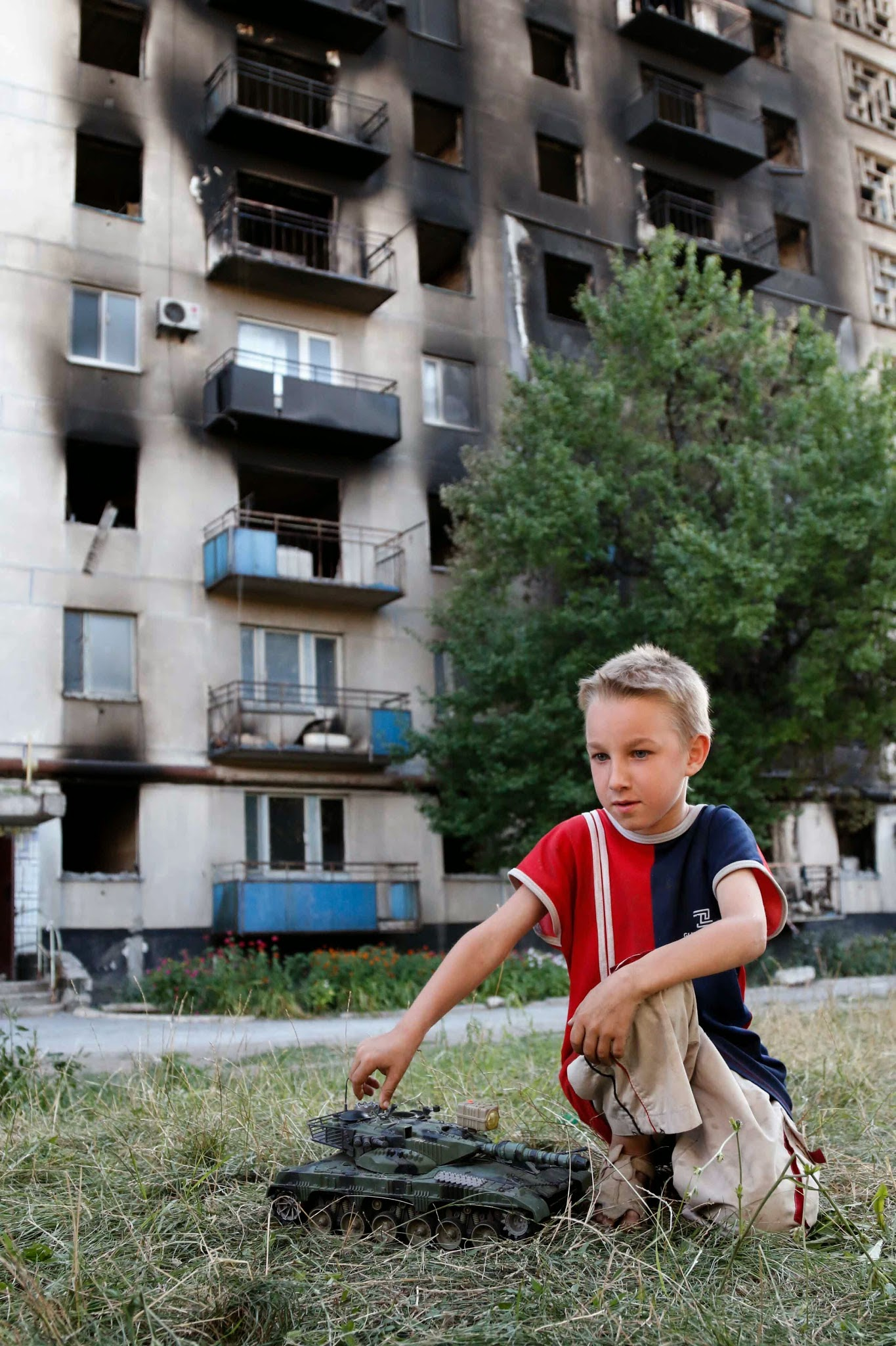 Burned residential apartment building in Lysychansk, July 28, 2014.